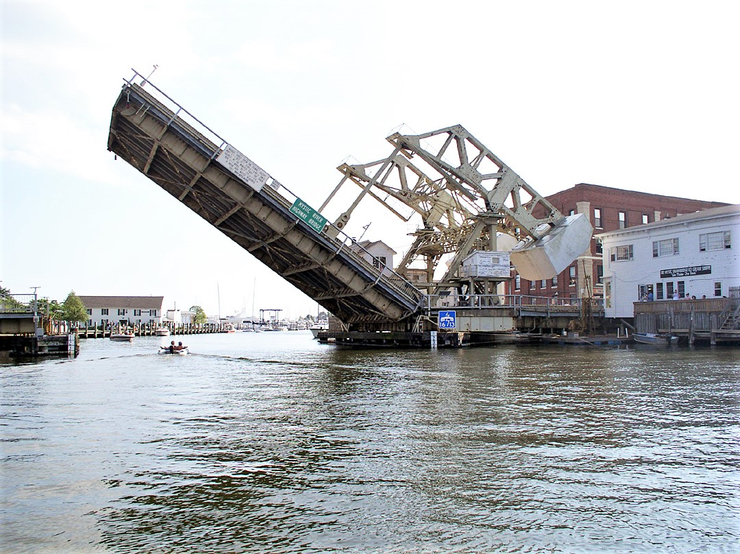 The Mystic River Bascule Bridge that was built in 1922.